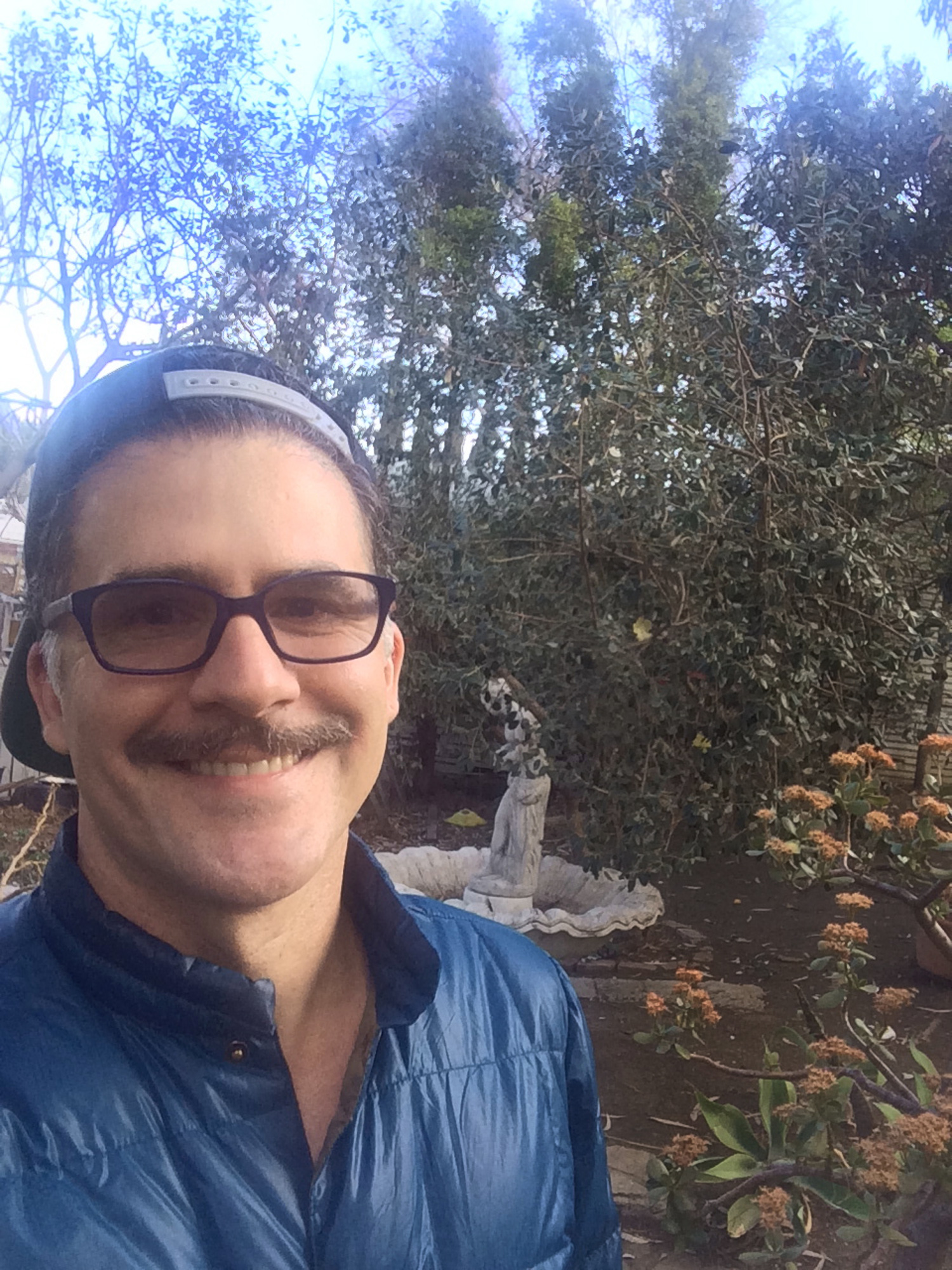 Portrait of artist Austin Young